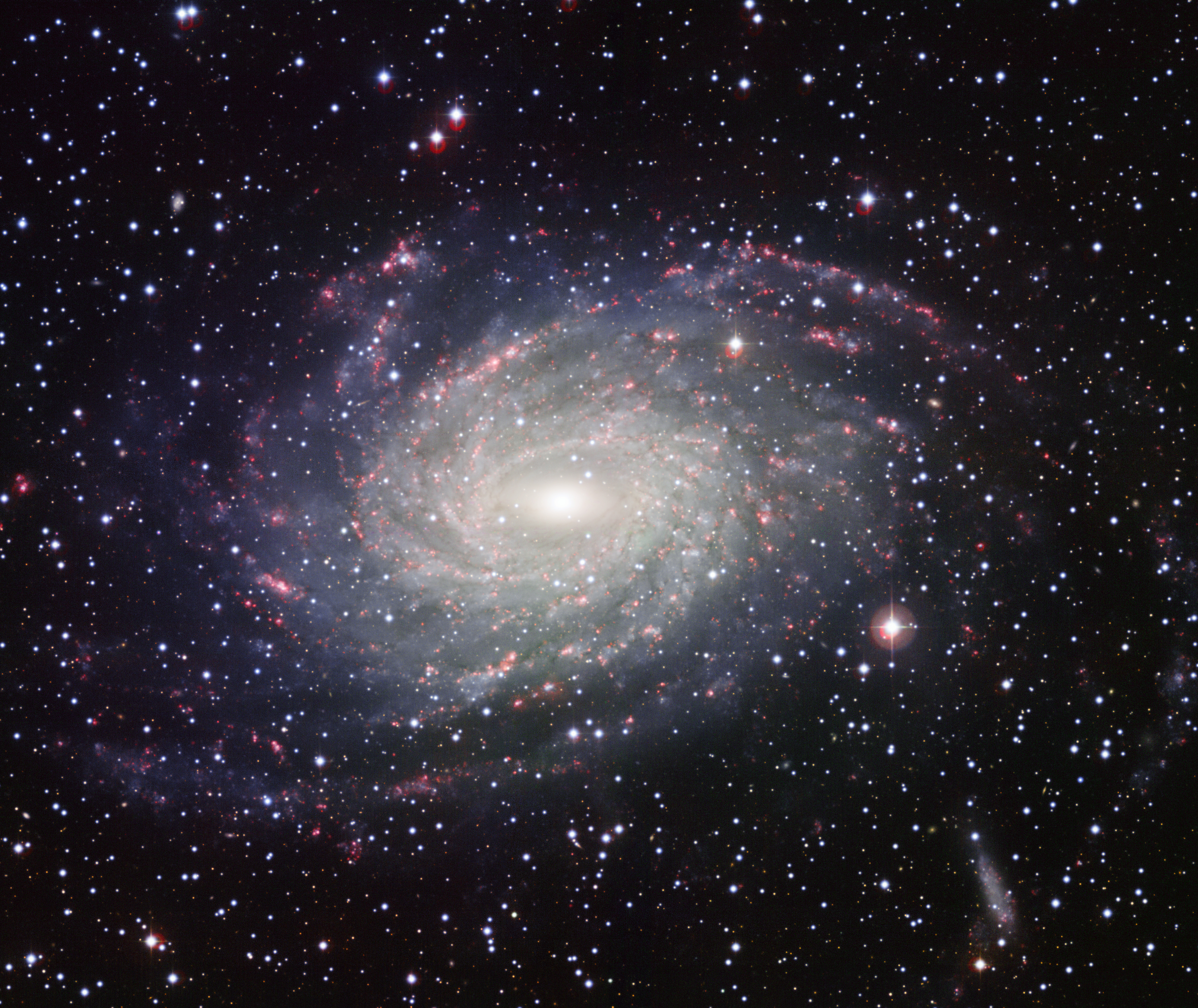 This picture of the nearby galaxy NGC 6744 was taken with the Wide Field Imager on the MPG/ESO 2.2-metre telescope at La Silla. The large spiral galaxy is similar to the Milky Way, making this image look like a picture postcard of our own galaxy sent from extragalactic space. The picture was created from exposures taken through four different filters that passed blue, yellow-green, red light, and the glow coming from hydrogen gas. These are shown in this picture as blue, green, orange and red, respectively.